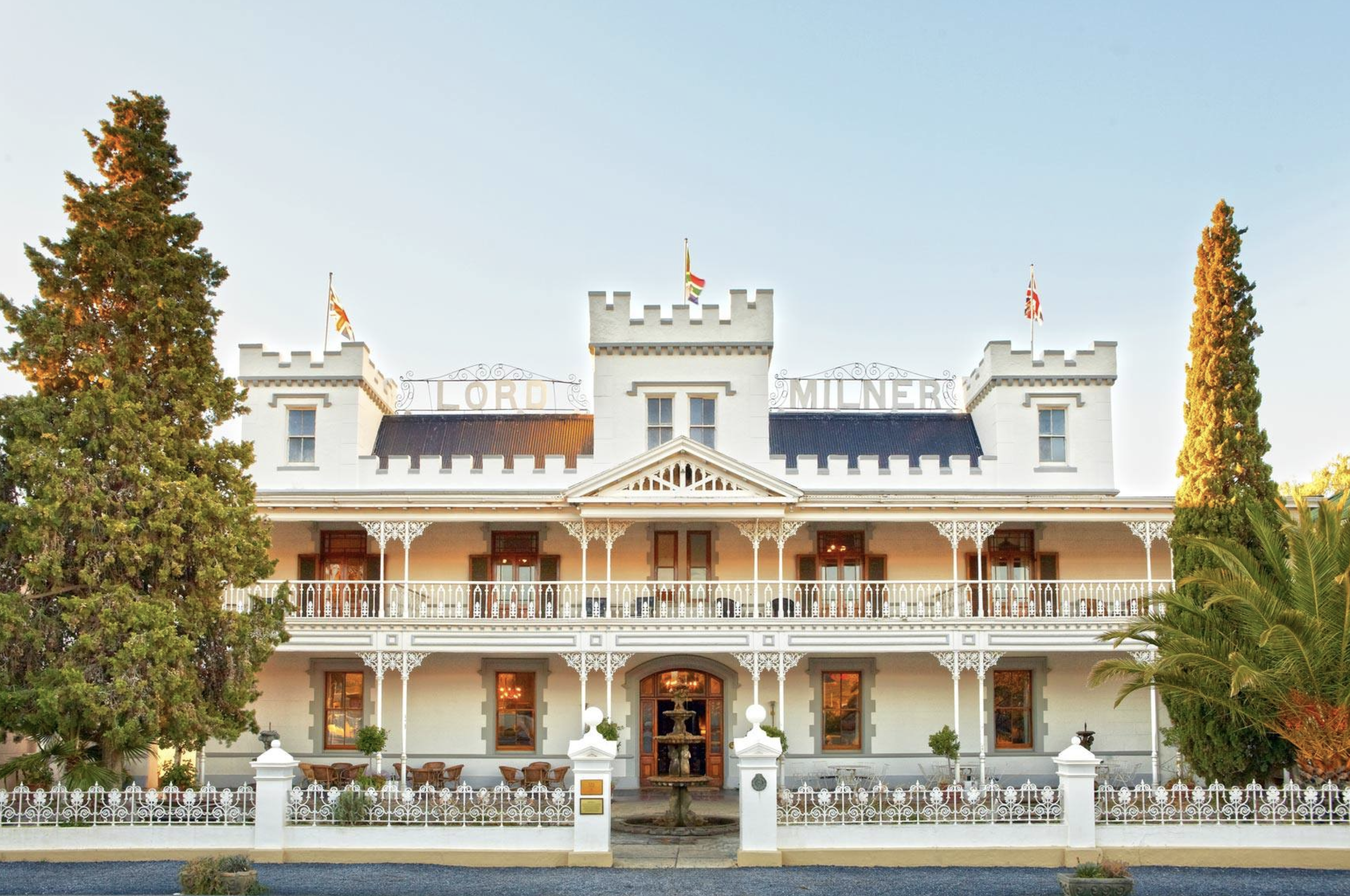 The Lord Milner hotel in South Africa. Although Lord Milner never stepped inside, the hotel served as British Army Headquarters for two years (1899 - 1901) during the Boer War.